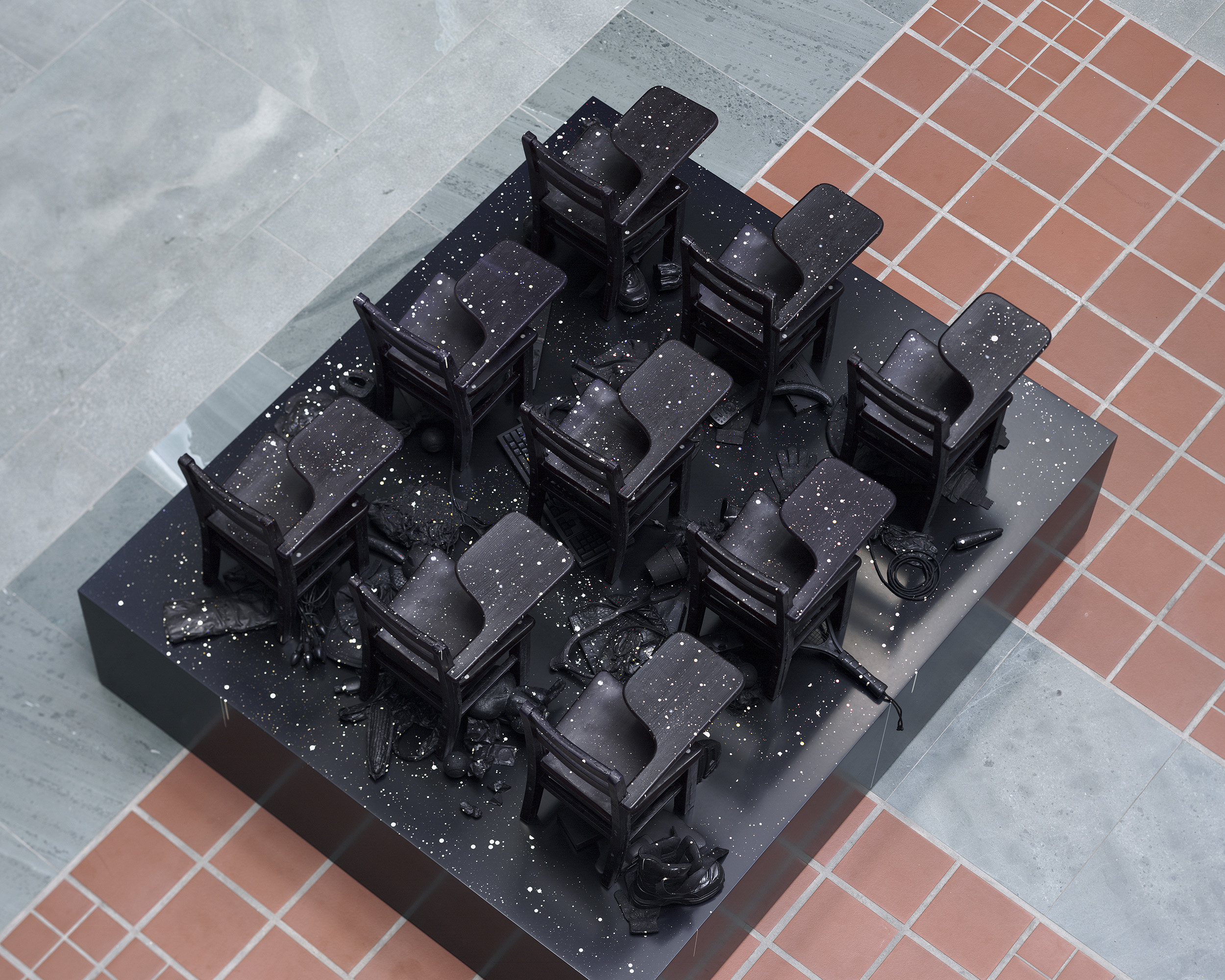 Peter Harkawik, "Foundered Planetarium," 2012, solid cast paraffin and microcrystalline wax, acrylic paint, latex rubber, hydrocal, FGR 95, urethane, discarded objects, MDF, bondo, polyester paint, hardware, 72 x 84 x 50 inches